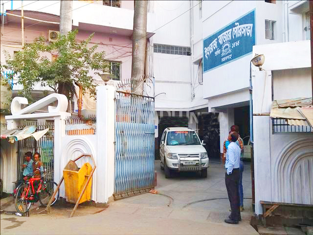 English Bazar Municipality Building in Malda